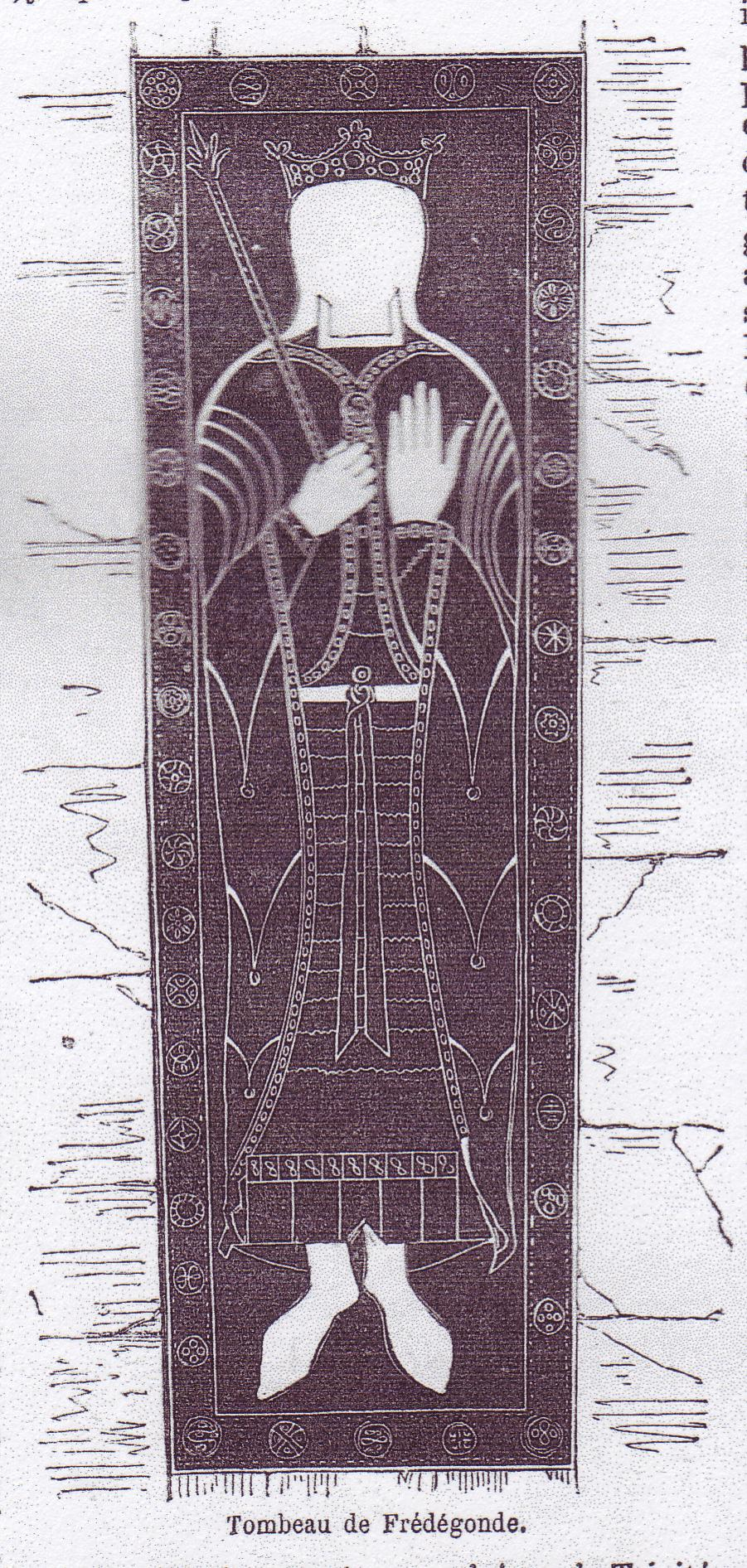 engraving of the tomb of frédégonde